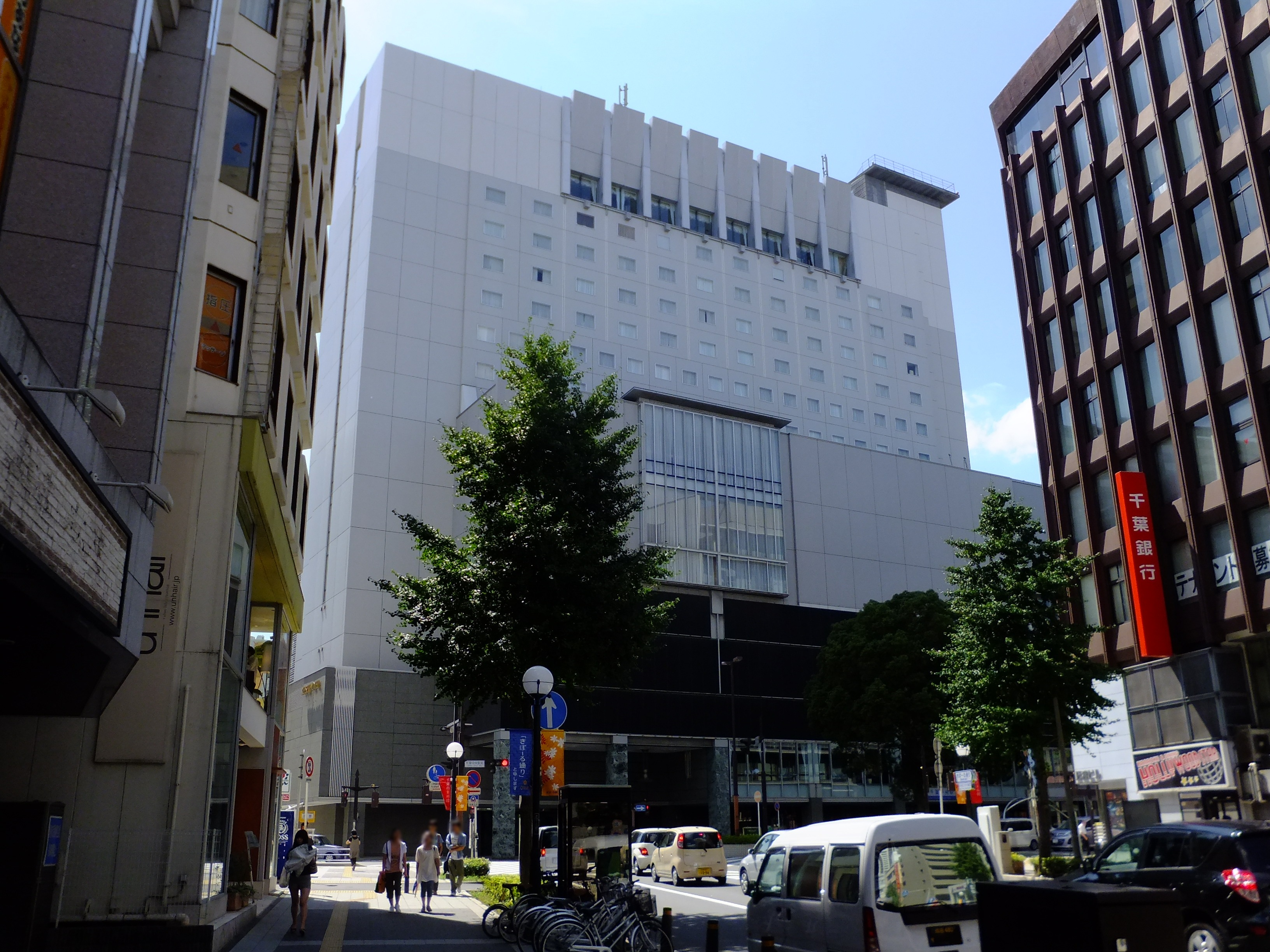 Keisei Hotle Miramare, and as Chiba-Chūō Station east side (August 2012)